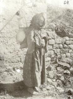 Daghestan. Avarian girl going for water / An old Avar woman.